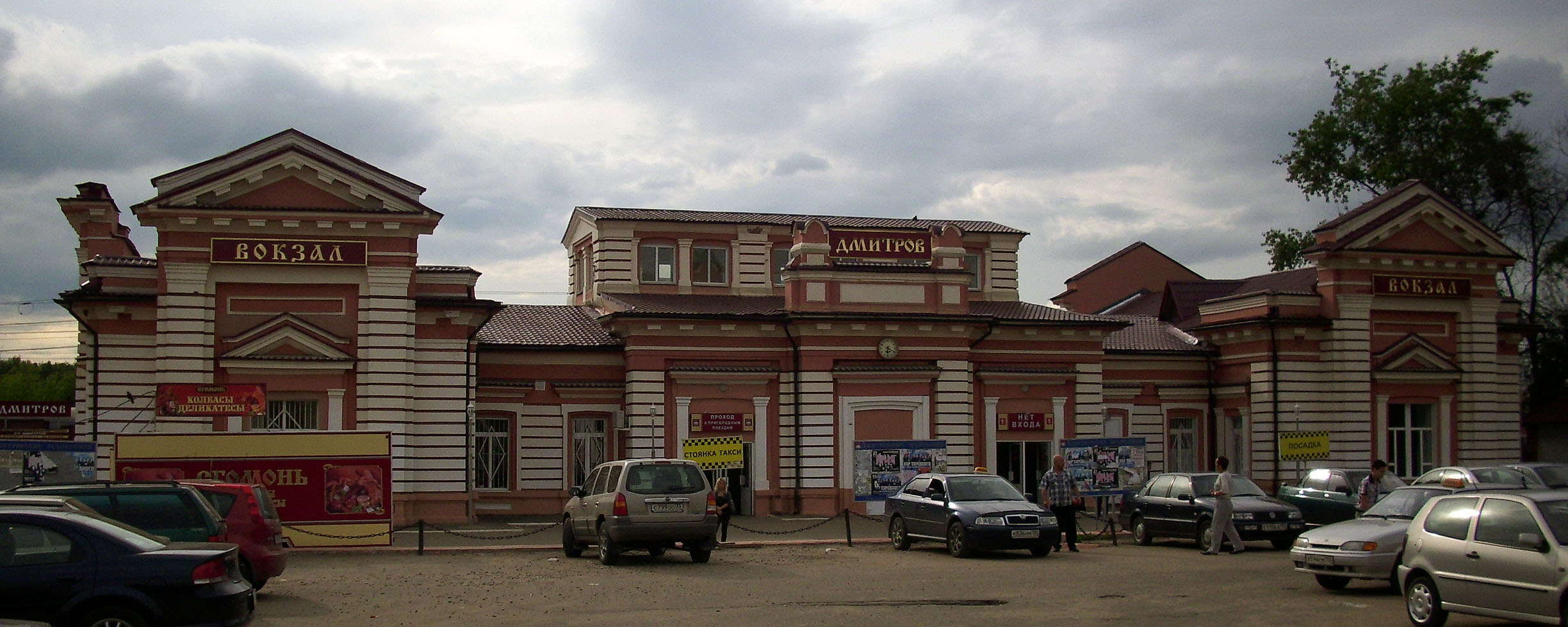 Dmitrov station (Moscow oblast, Russia)